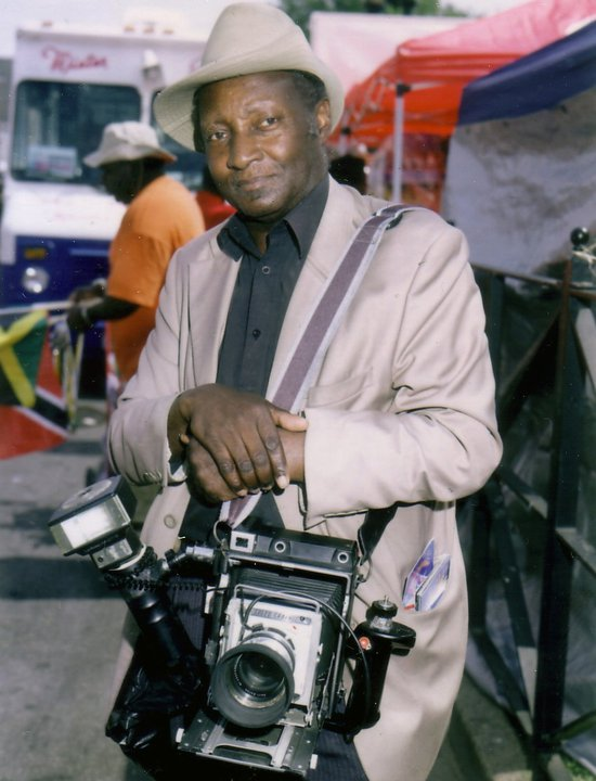 2009 West Indian Day Parade Eastern Parkway & Utica. - Shot on FUJI FILM FP-100C 3.25 X 4.25 Professional Instant Color Film with a 1960 Converted Polaroid 110b Camera Louis let me borrow for the day. photograph by R. A. Ortiz 2009